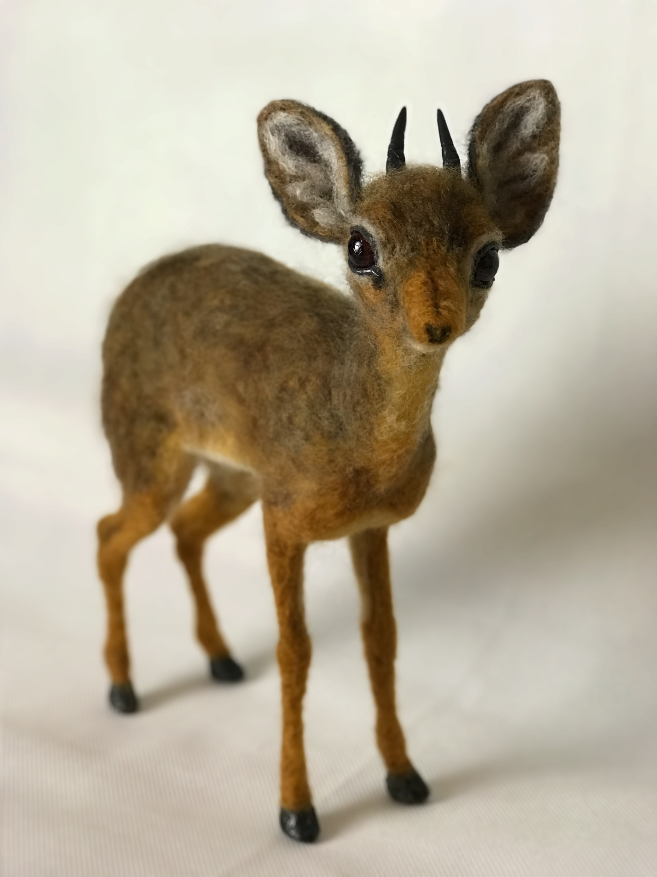 Needle felted over a wire armature, with a layered/reversed coat and with polymer clay horns, waxed hooves and bespoke eyes.